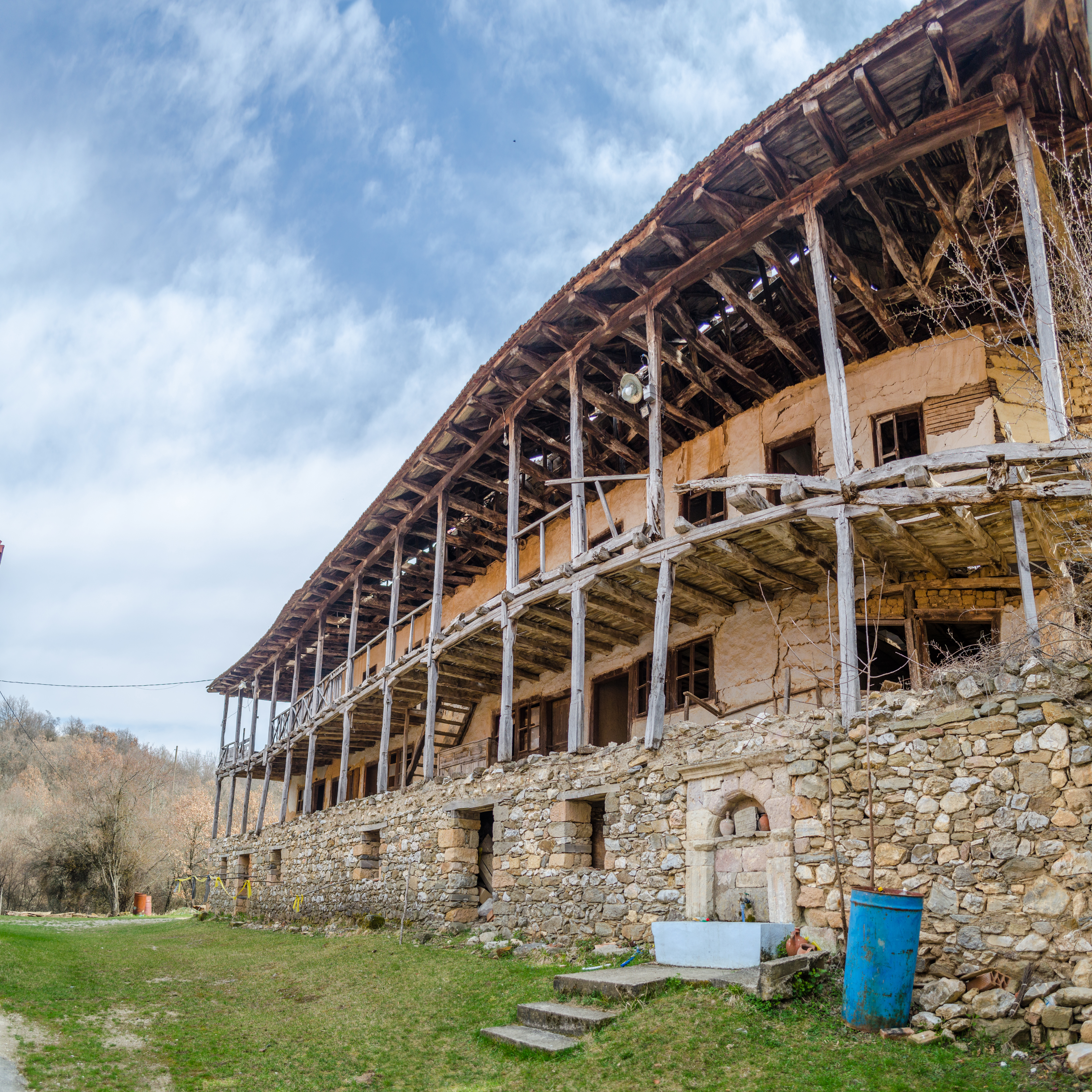 The old konak in the Zabel monastery, Macedonia